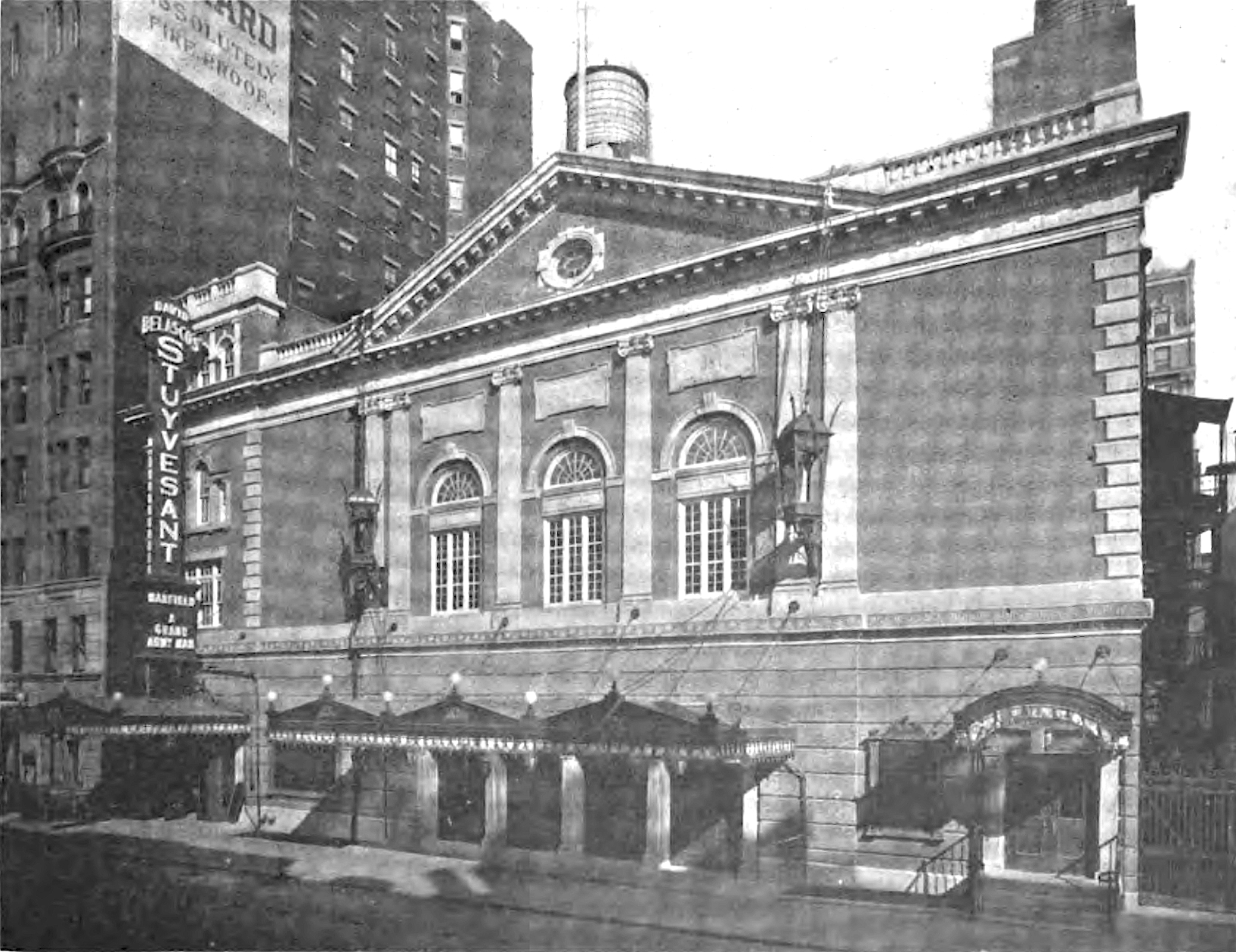 Belasco Theatre, Manhattan. The sign on the front reads: "David Belasco's Stuyvesant Warfield A Grand Army Man".